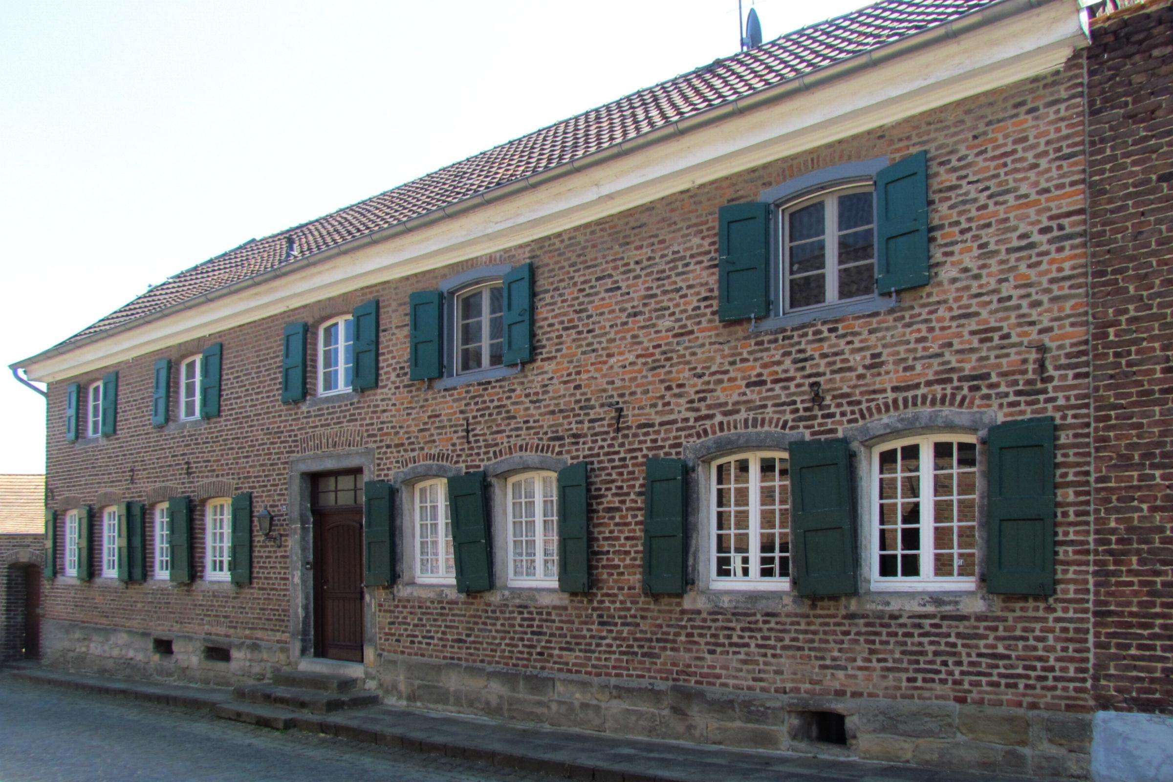 This is a photograph of an architectural monument.It is on the list of cultural monuments of Korschenbroich